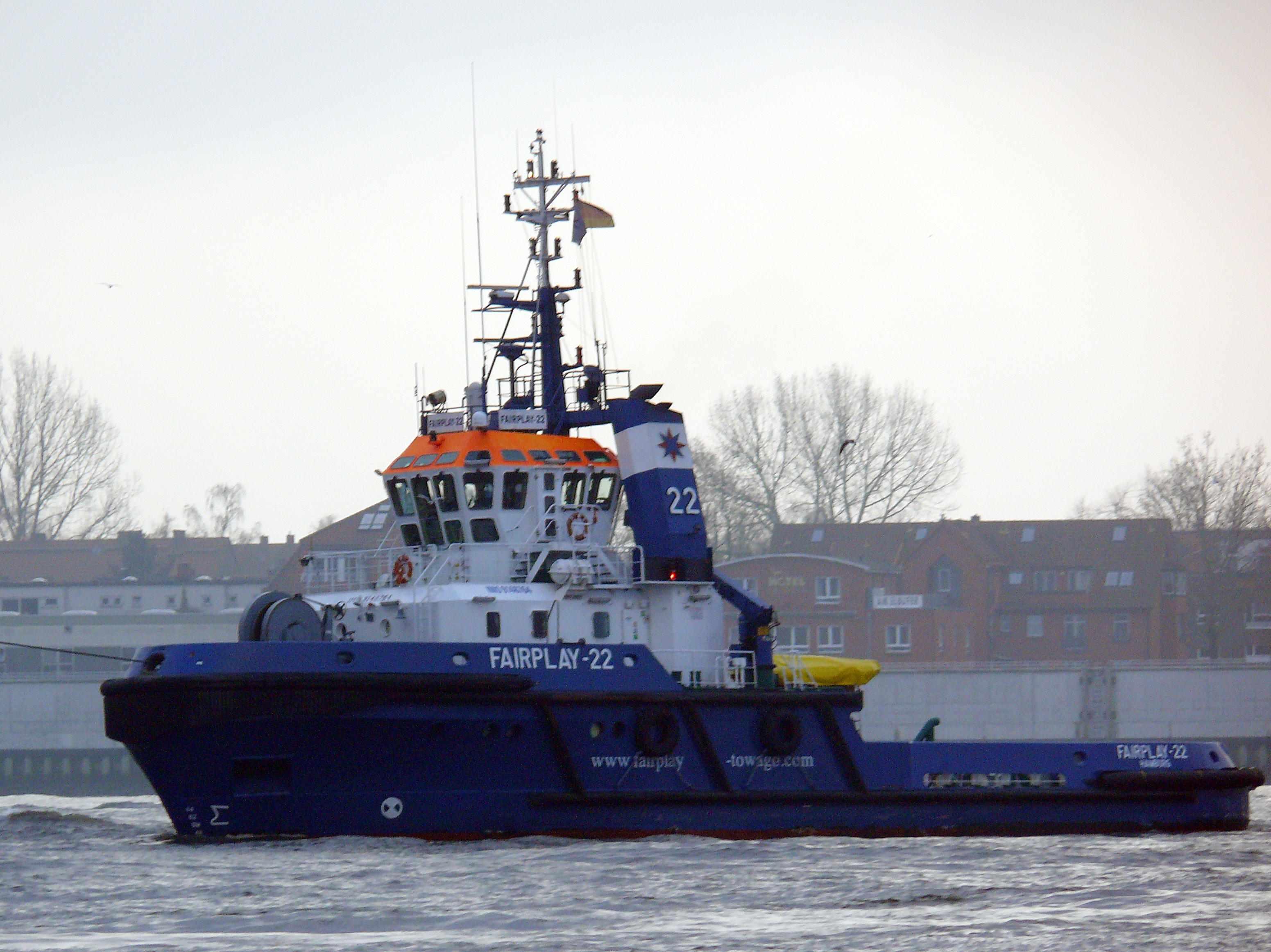 Tugboat FAIRPLAY 22, Hamburg *IMO Number: 9148764 *MMSI Number: 305156000 *Callsign: V2FG *Length: 35 m *Beam: 12 m